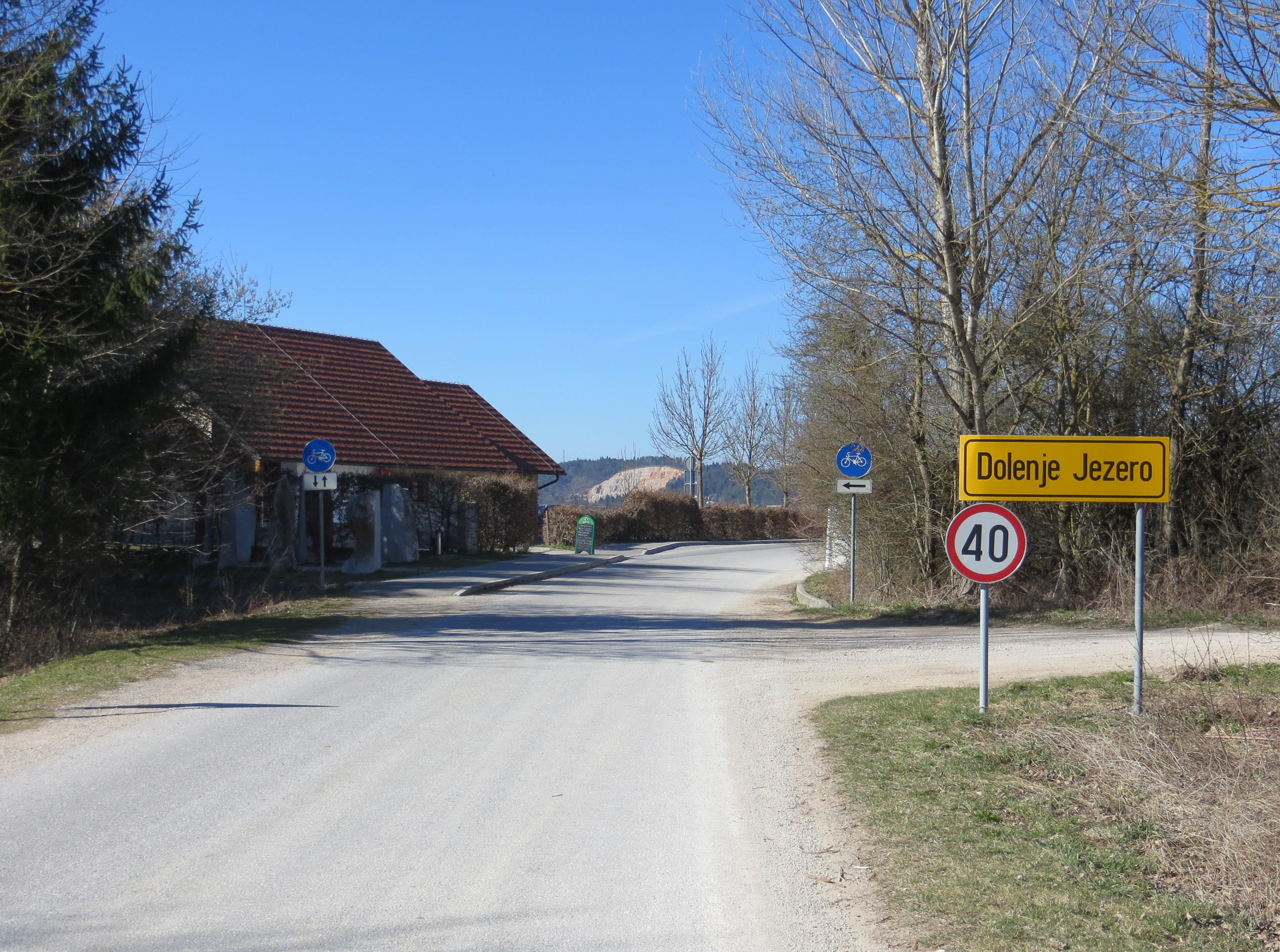 Dolenje Jezero, Municipality of Cerknica, Slovenia